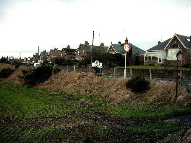 Wormit. Entering Wormit from the South East. This a residential village situated on the South bank of the Tay opposite Dundee.